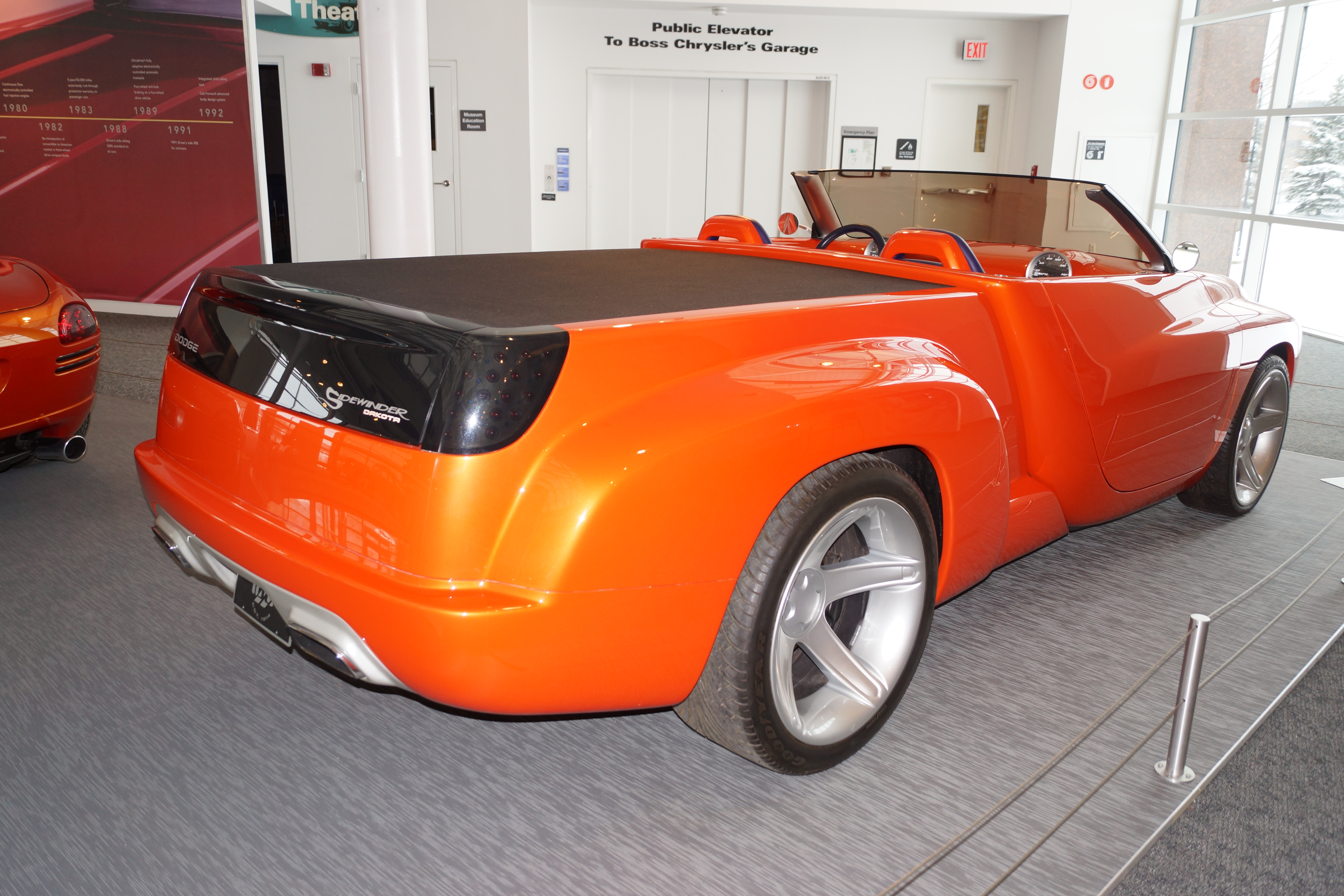 Click here for more car pictures at my Flickr site. Or here for my Car Crazy Tumblr site. Back on November 4th, Hemming's Blog posted an article about the closing of the Walter P. Chrysler Museum . I had missed a couple other opportunities with the WPC Club and others to get into the museum, after it had closed to the public. I did not want to regret missing this last chance to see all of the vehicles before being spread out to other facilities. I trekked from Western Minnesota to Eastern Michigan during Winter Storm Decima. I missed the worst parts of the storm, but still had to endure the aftermath winds, sub zero temperatures and a lake effect snow storm. The trip was difficult, but well worth it. I got to see several Chrysler Corporation concept and show cars that I had only seen pictures of before. There were several clever interactive displays demonstrating various innovations over the years. Since it was the last chance, I duplicated several shots using different camera settings to see what produced better results. I wish I had invested in a strobe light diffuser for all of those indoor pictures. I have not had much experience or success in the past with indoor car images.